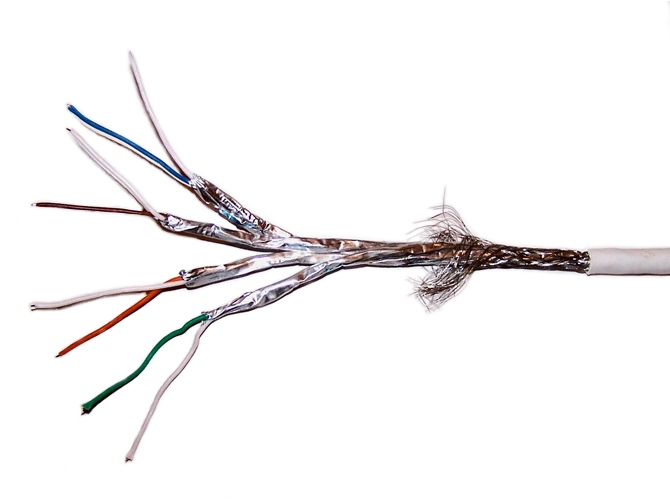 S/FTP CAT 7